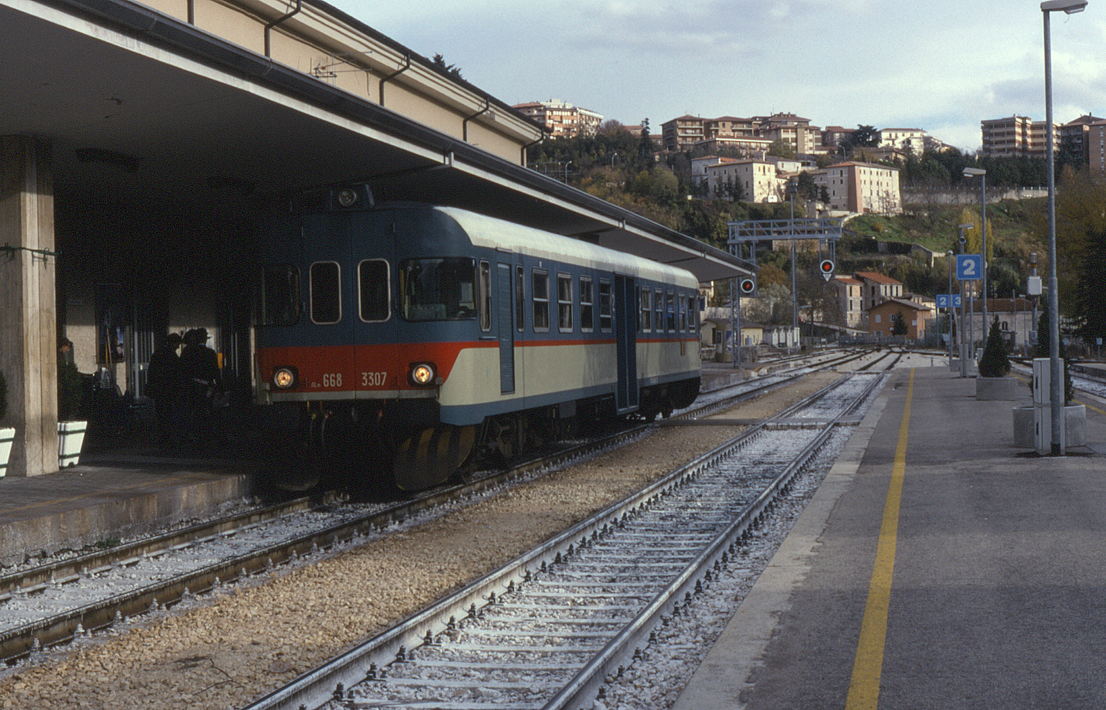 Single railcar ALn 668.3329 prior to its next working, train R7109, 14:22 L'Aquila to Sulmona on 11 November 1996.